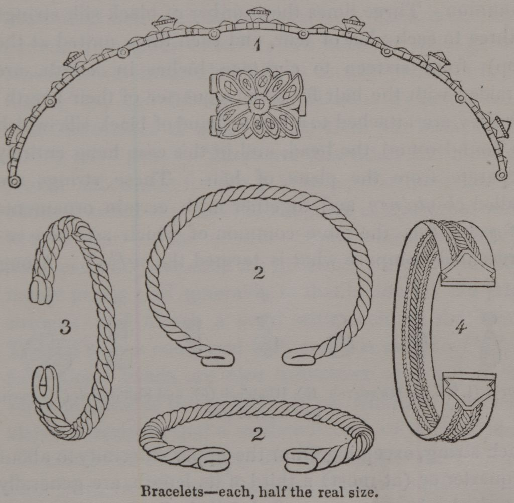 Five different kinds of bracelets. Engraving (prints).